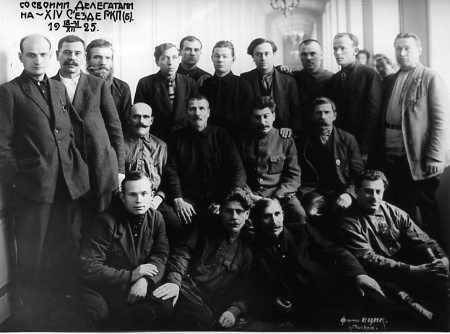 Joseph Stalin (center) and Nikita Khrushchev (bottom left) with delegates to the 14th Congres of the Russian Communist Party (Bolsheviks).